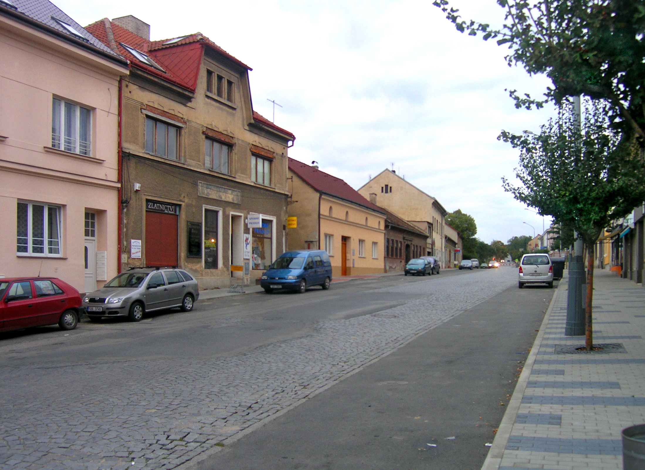 Husova street in Úvaly, Czech Republic